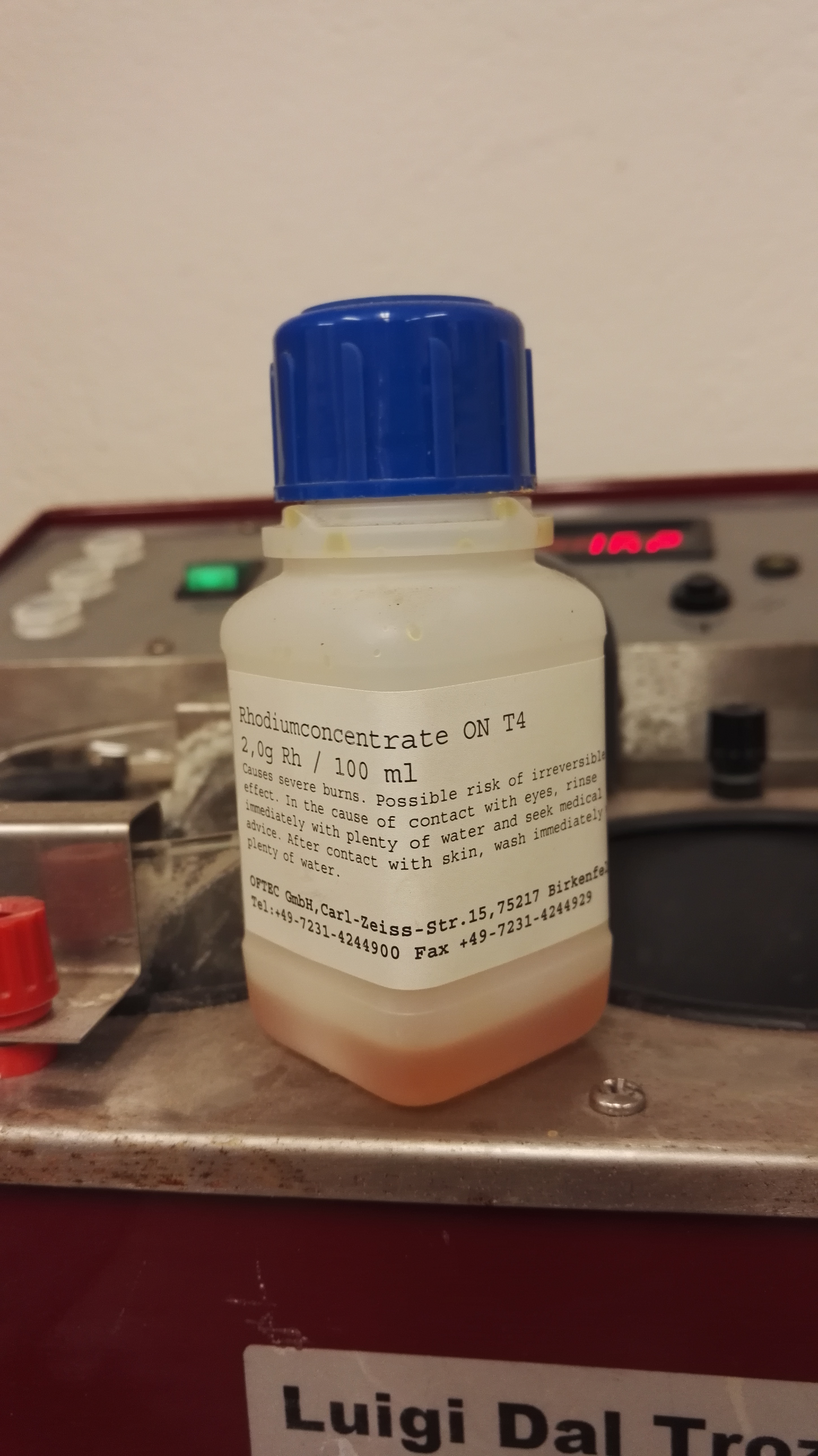 Rodium plating liquid